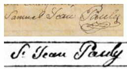 Jean Samuel Pauly's signature on two documents - court case (London, 1817) and marriage record (St Mary, Lambeth, 4 July 1816)